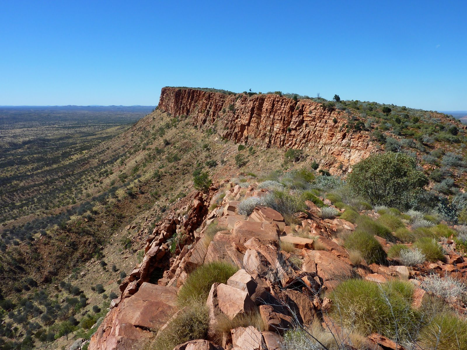 Heavitree Range, Northern Territory, Australia